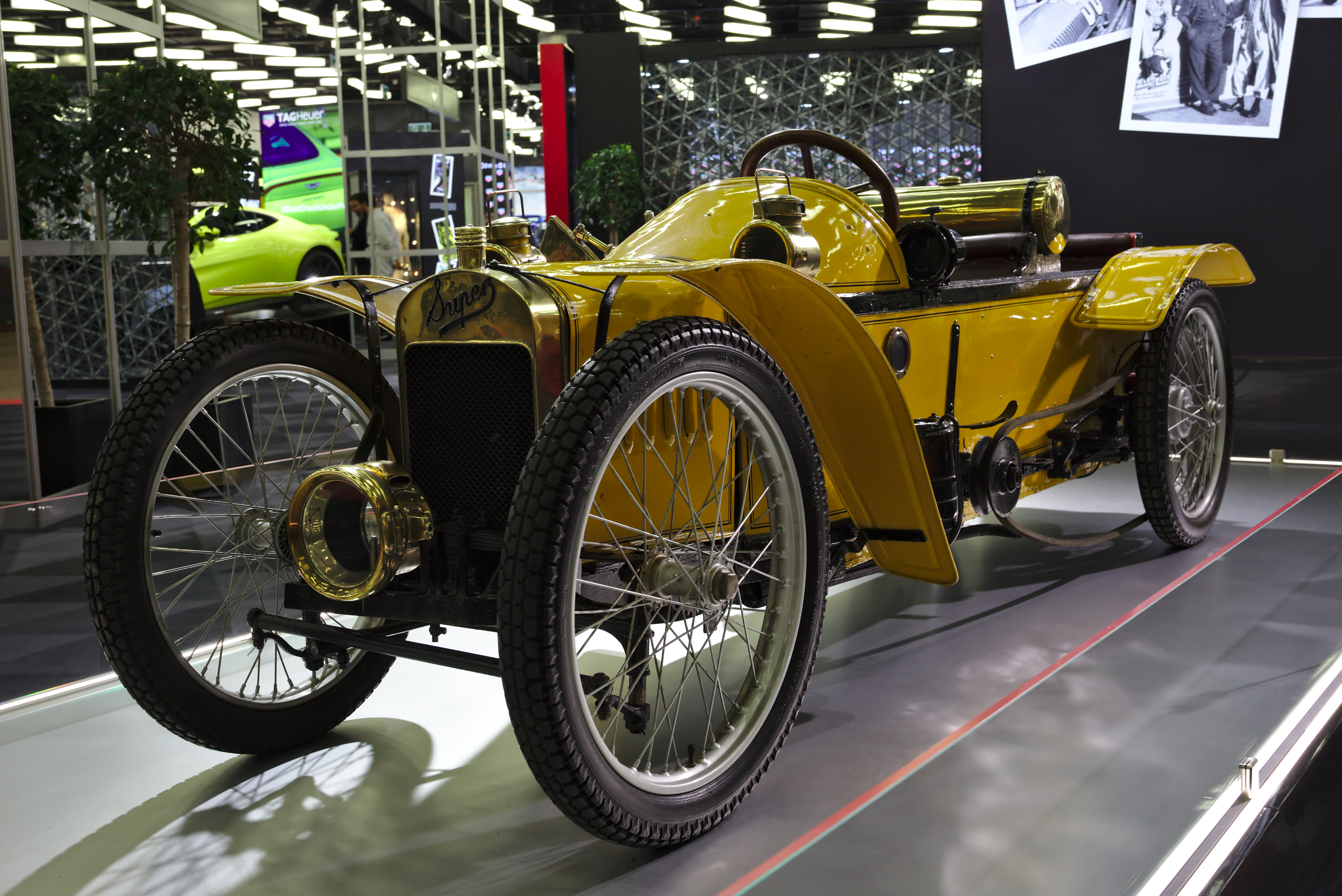 Super Levêque at Geneva Motorshow 2018